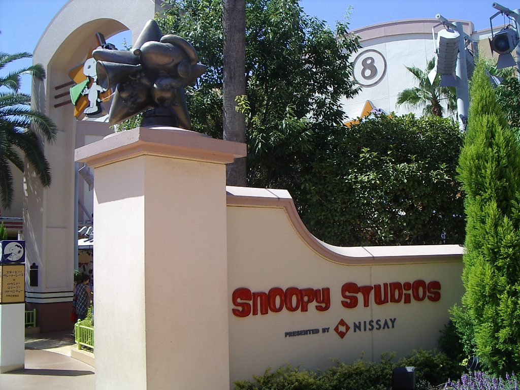 Snoopy Studio in Universal Studios Japan